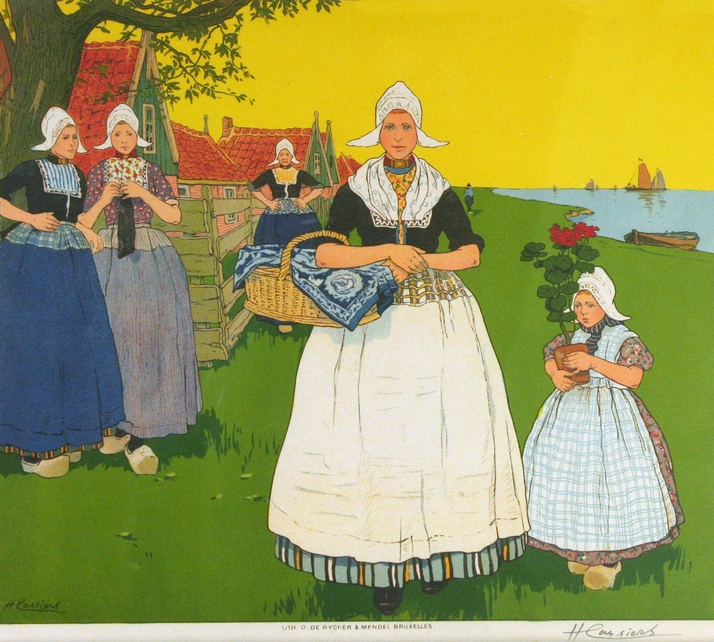 Volendam